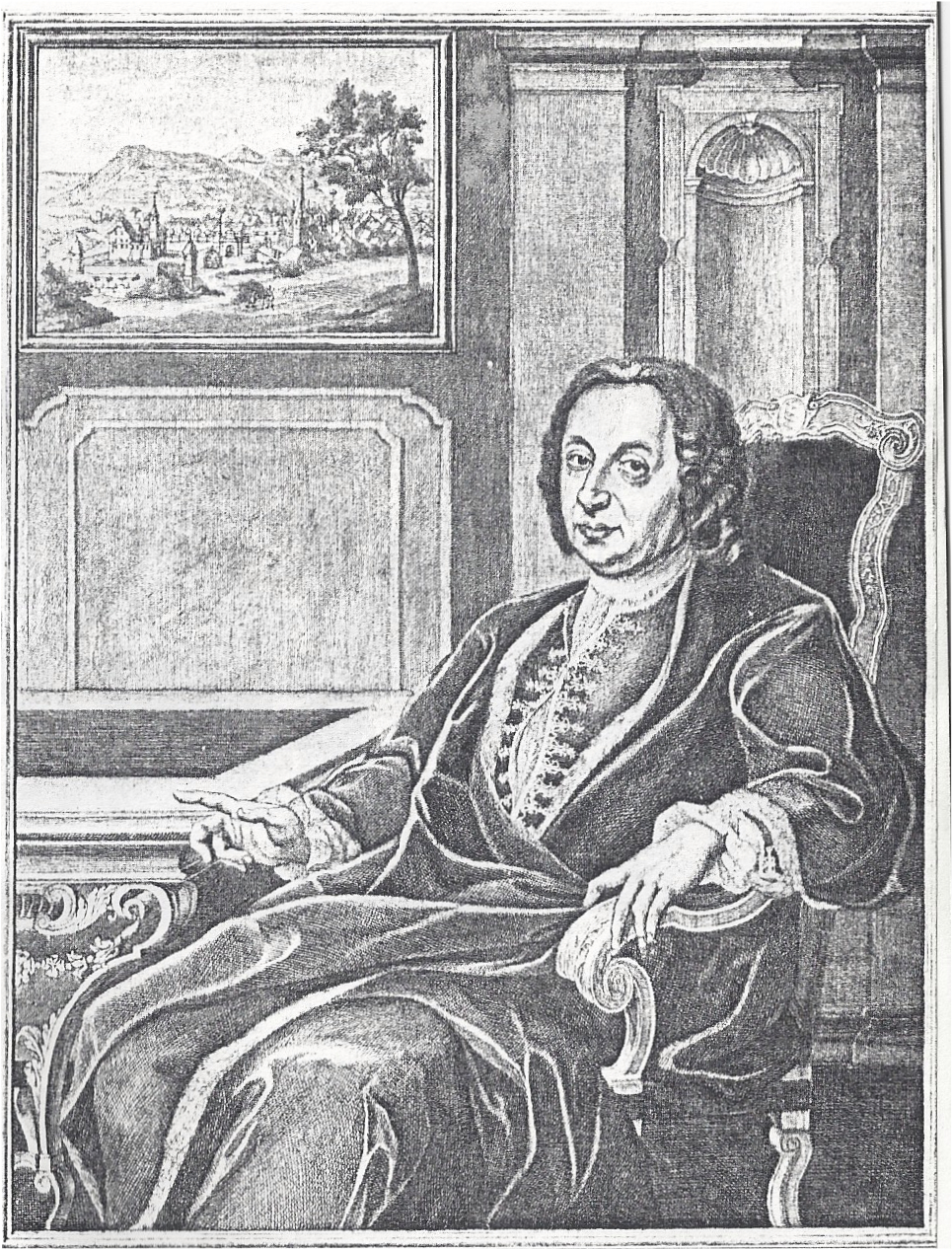 Hieronymus Wilhelm Ebner von Eschenbach